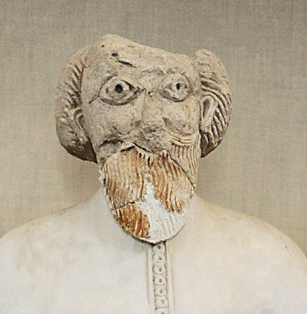 Bust of the standing caliph statue from Hisham's Palace (Khirbat al-Mafjar) 724–43 CE, now present at The Rockefeller Museum, Jerusalem.